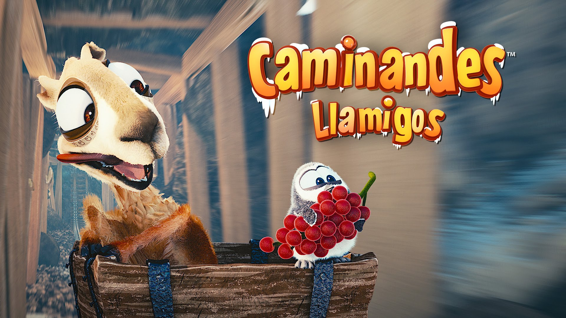 Cover thumbnail of the free/libre Blender 3D animated short series Caminandes in the third episode Llamigos.